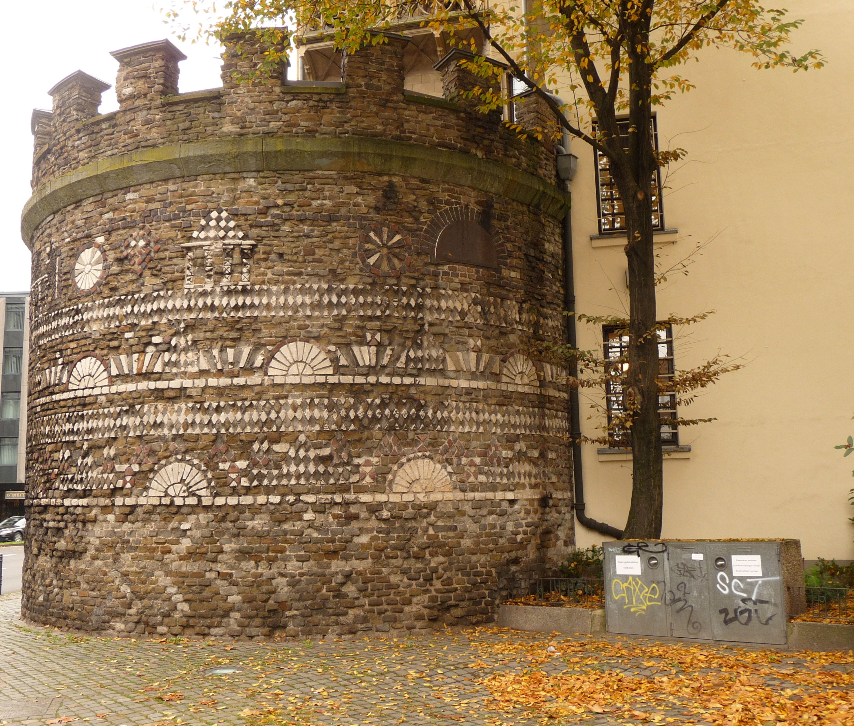 Römerturm. Roman murals in Cologne